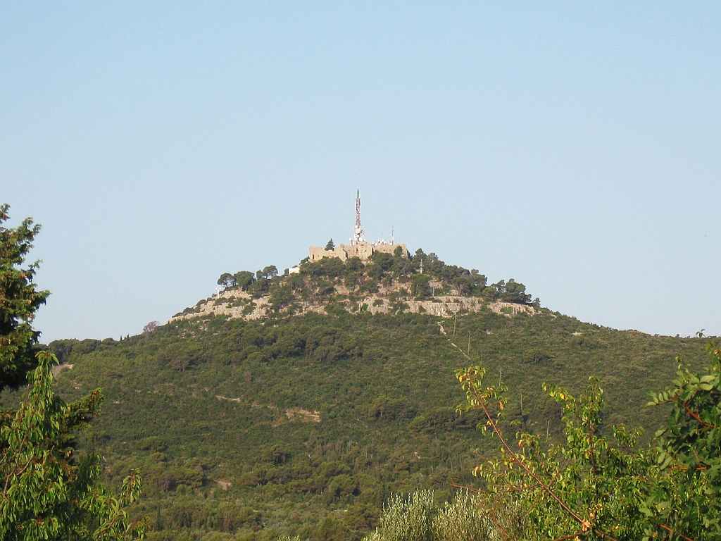 Fortress and monastery Sv. Mihovil on island Ugljan